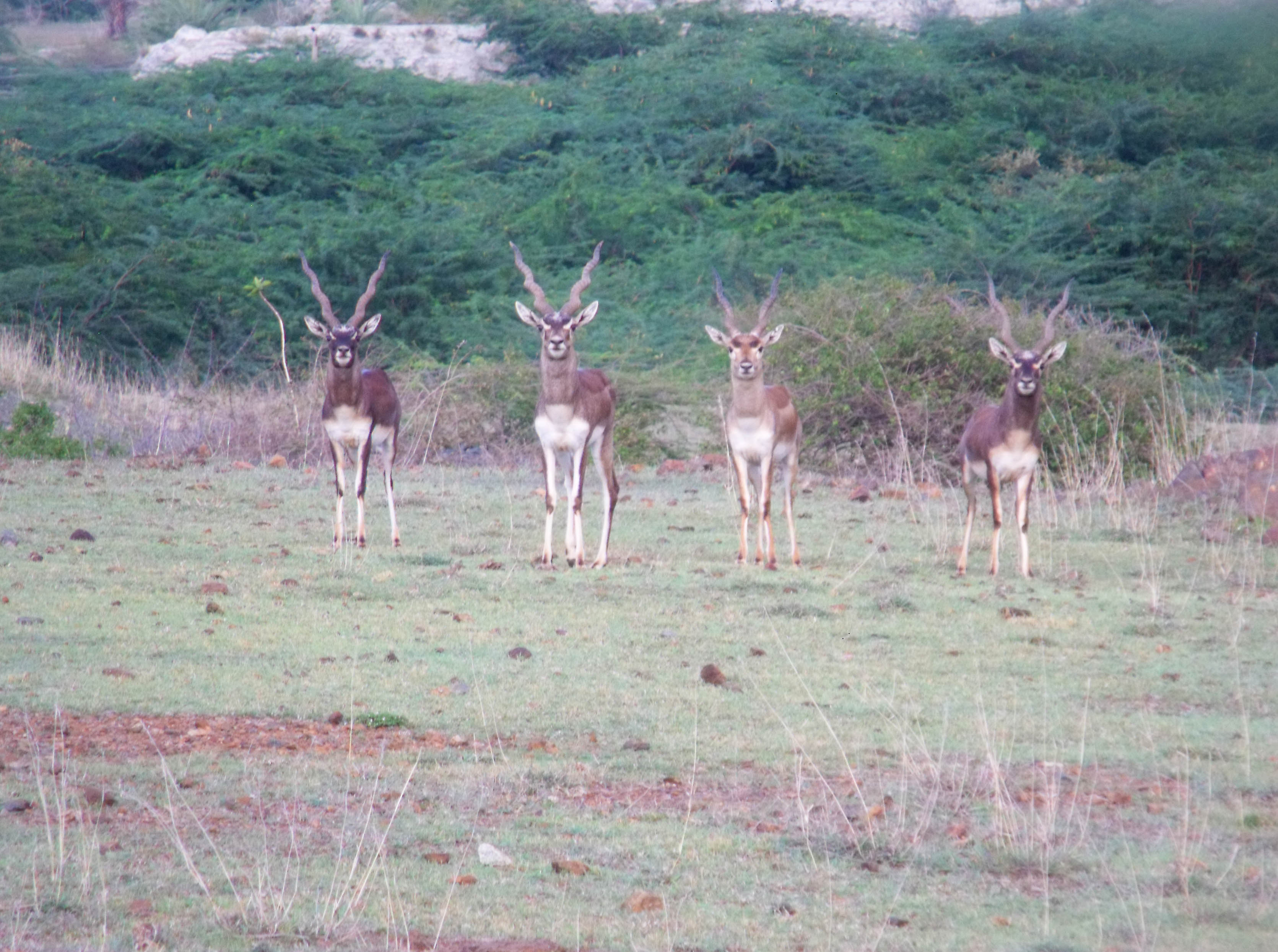 juvenile bucks in Balaghat lane, KGF